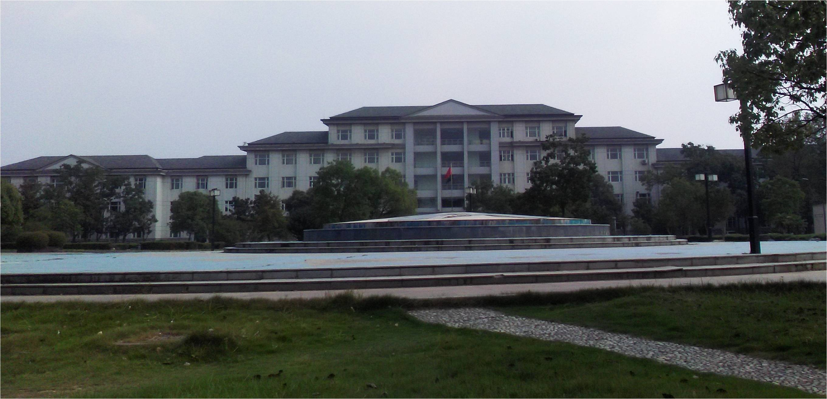 Picture of the administrative building of Hefei Institutes of Physical Science, Chinese Academy of Sciences.